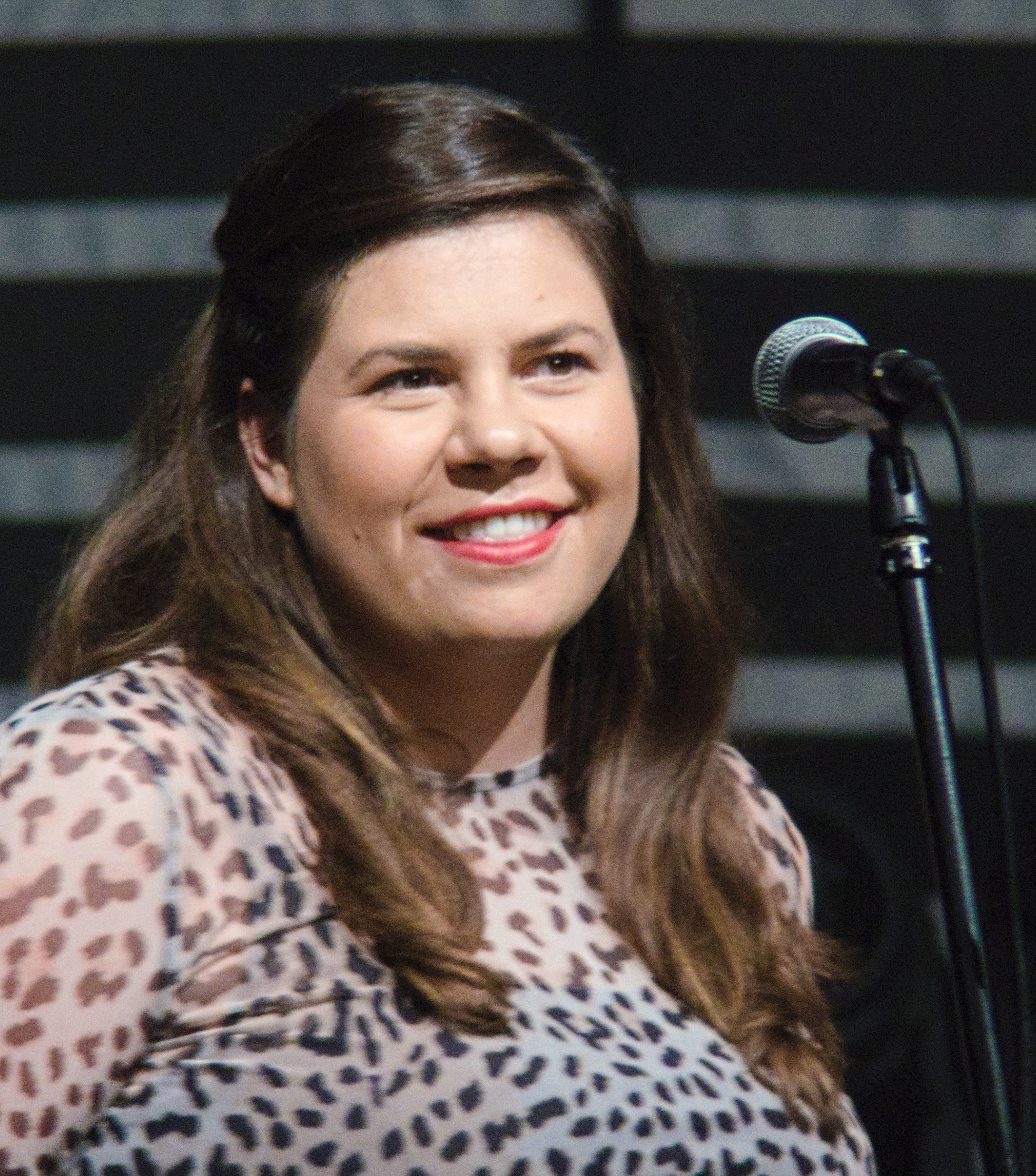 Monika Borzym during Voo Voo concert in Katowice, Sejmu Śląskiego square, photo taken with permission of Voo Voo manager, Mariusz Dettlaff